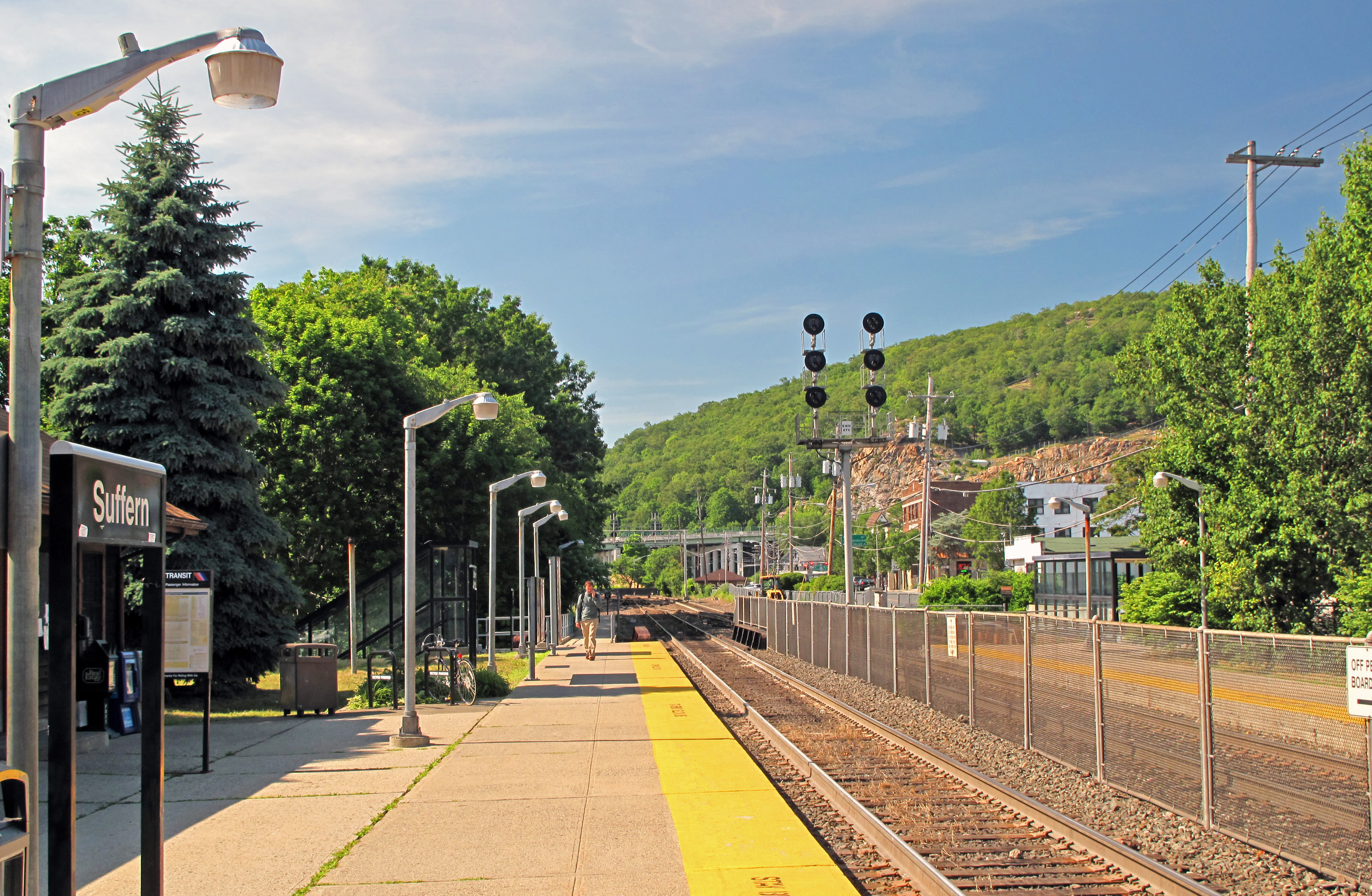 The Rail Station in Suffern NY